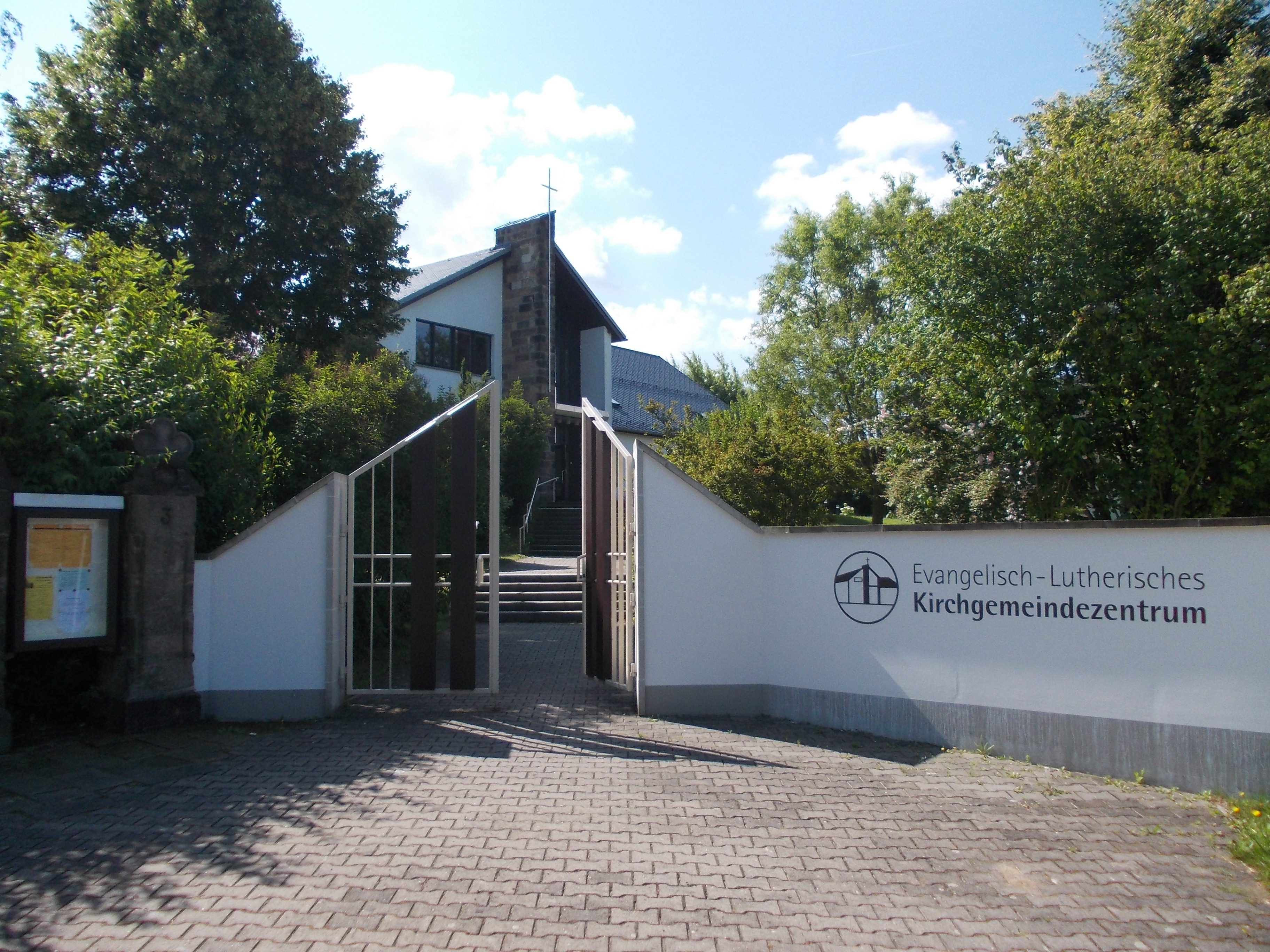 Lutheran church in Olbersdorf (Görlitz district, Saxony)